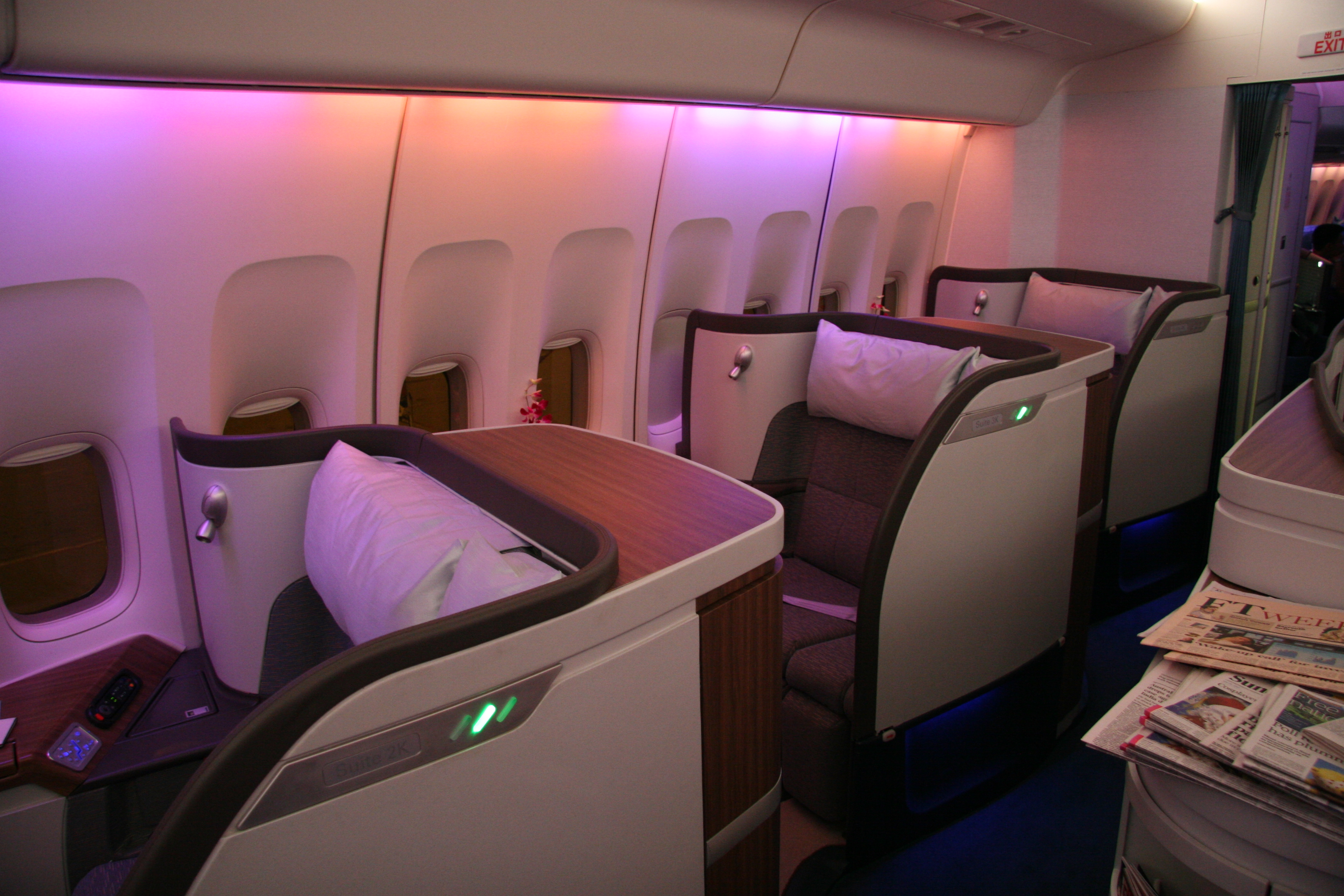 Cathay Pacific First Class